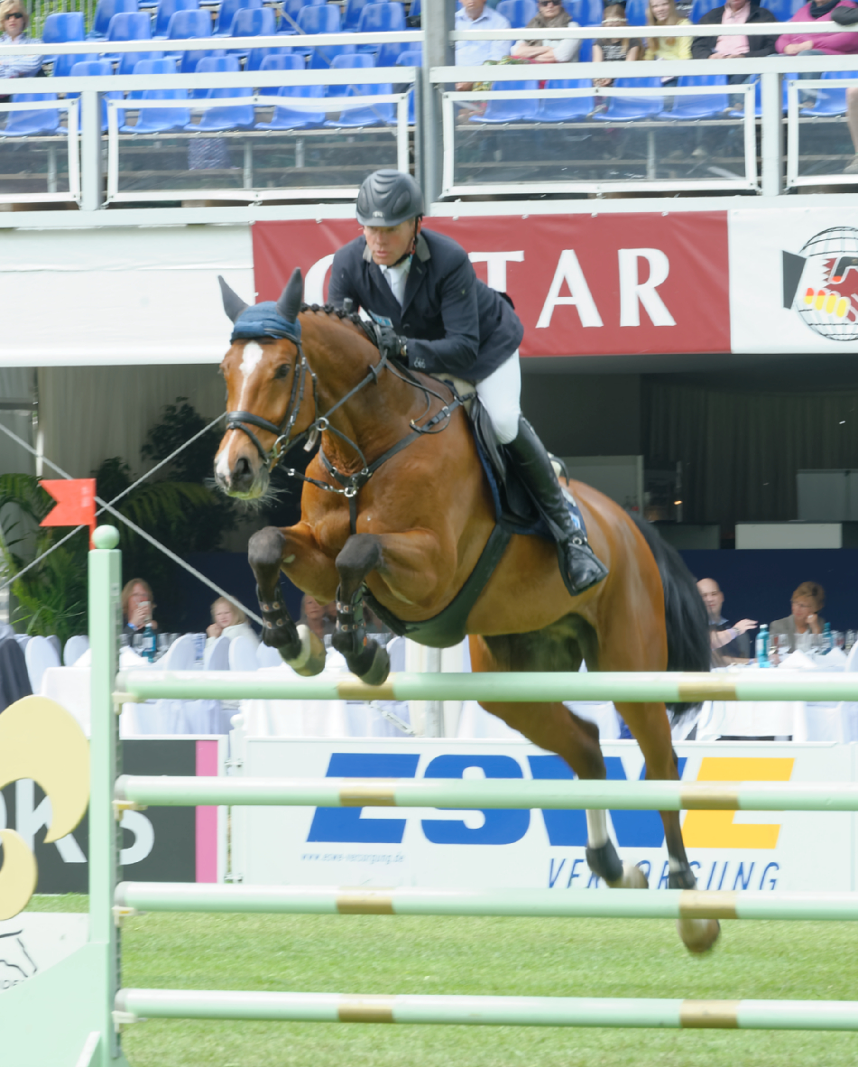 CSIYH* int. Springprüfung nach Strafpunkten und Zeit Internationales Pfingstturnier Wiesbaden 2015 The making of this document was supported by the Community-Budget of Wikimedia Germany.